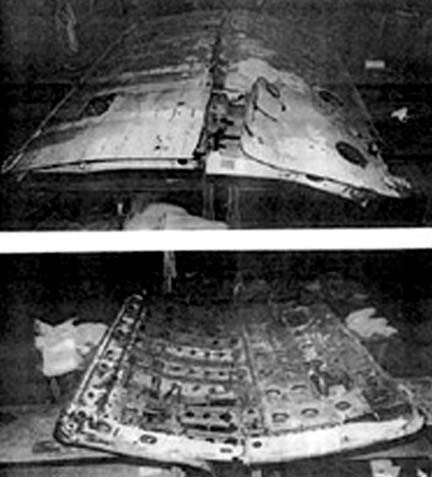 United Airlines Flight 811, Cargo Door after recovery by US Navy